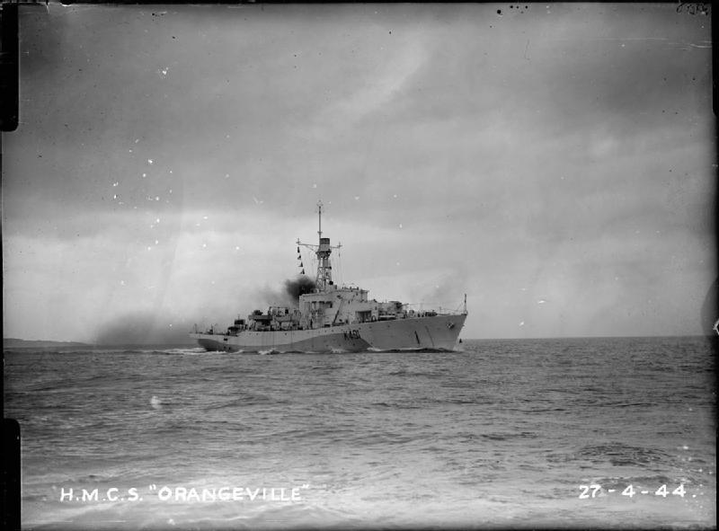 HMS Orangeville [sic; actually HMCS Orangeville, ex HMS Hedingham Castle].